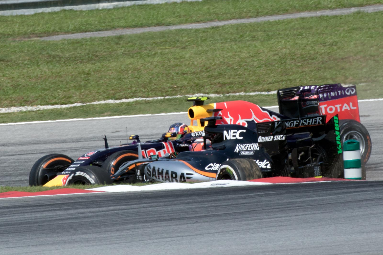 Formula One 2015 Rd.2 Malaysian GP: Nico Hülkenberg (Force India) hits Daniil Kvyat (Red Bull)